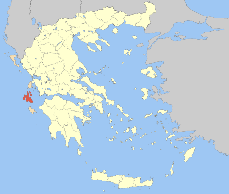 Locator map of Kefallinia prefecture (Νομός Κεφαλληνίας) in Greece